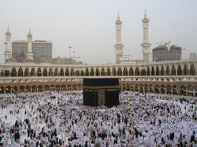 Pilgrims around Kaaba in Masjid al-Haram